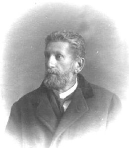 Mikhail Ivanovich Petrunkevich, oldest son of Iliya Petrunkevich